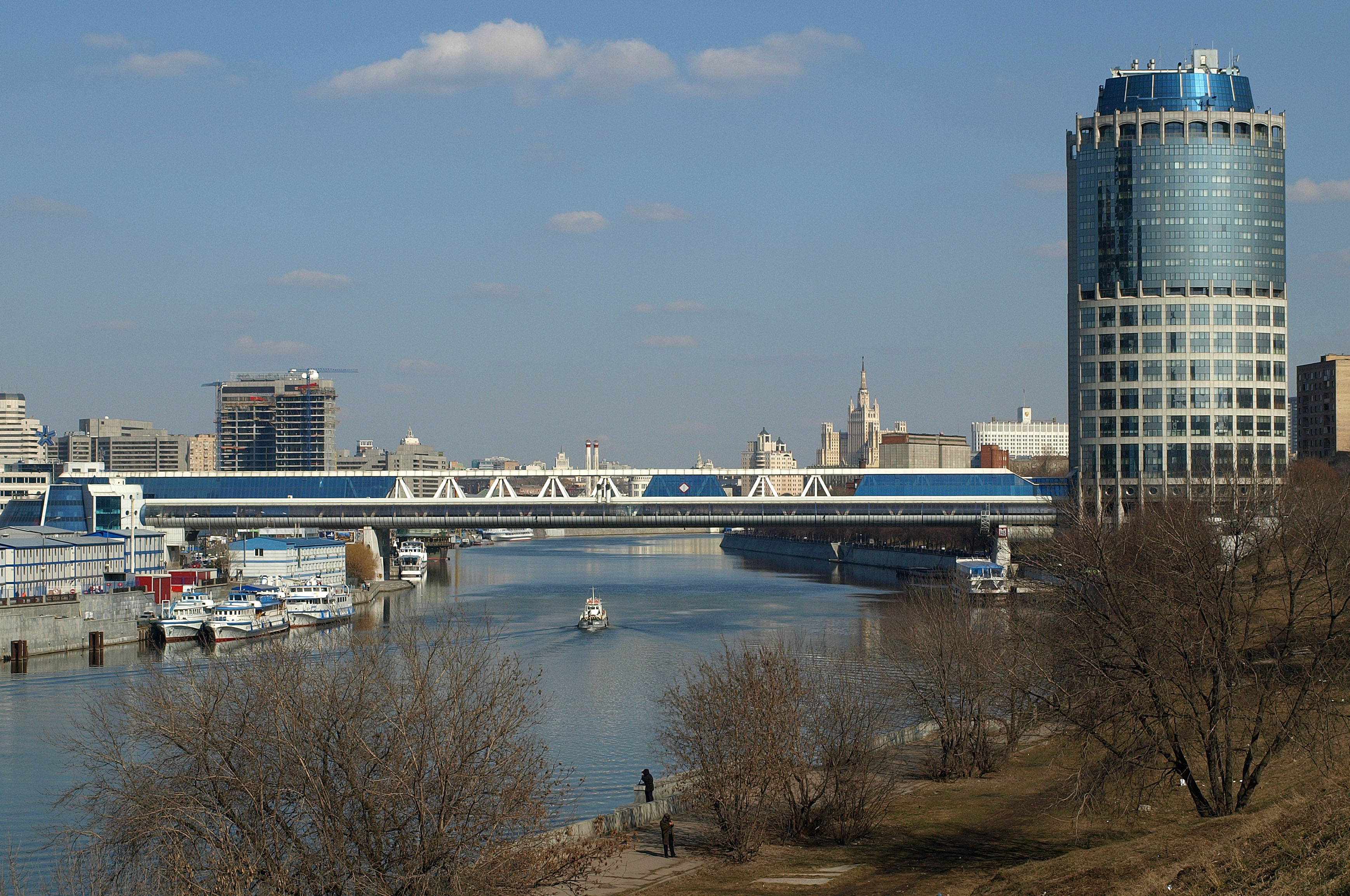 Moscow City site. 30/03/2008